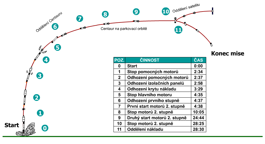 Atlas I Centaur mission profile